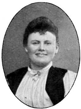 Image scanned from the book "Svenskt Porträttgalleri XX - Arkitekter, Bildhuggare, Målare m.fl. " ("Swedish Portrait Gallery XX - Architects, Sculptors, Painters, ") published 1901